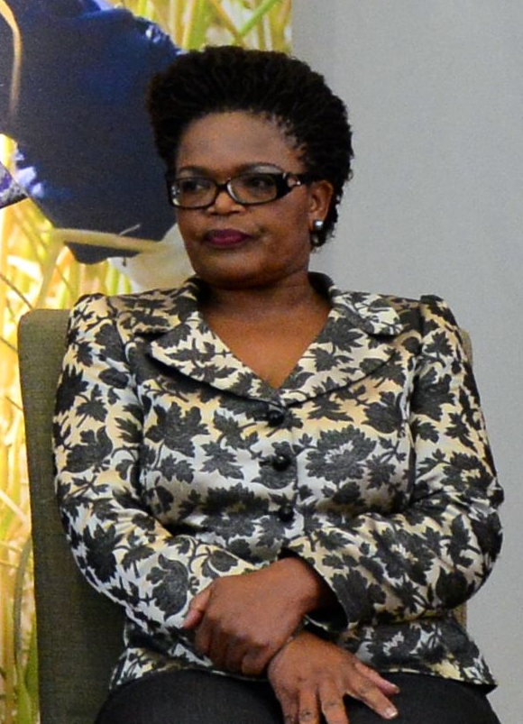 "Deputy Secretary Higginbottom and First Lady Michelle Obama recognized extraordinary women from around the globe with the Secretary of State’s International Women of Courage Award at a ceremony that took place on Tuesday, March 4, 2014, 11:30 a.m. at the Department of State."